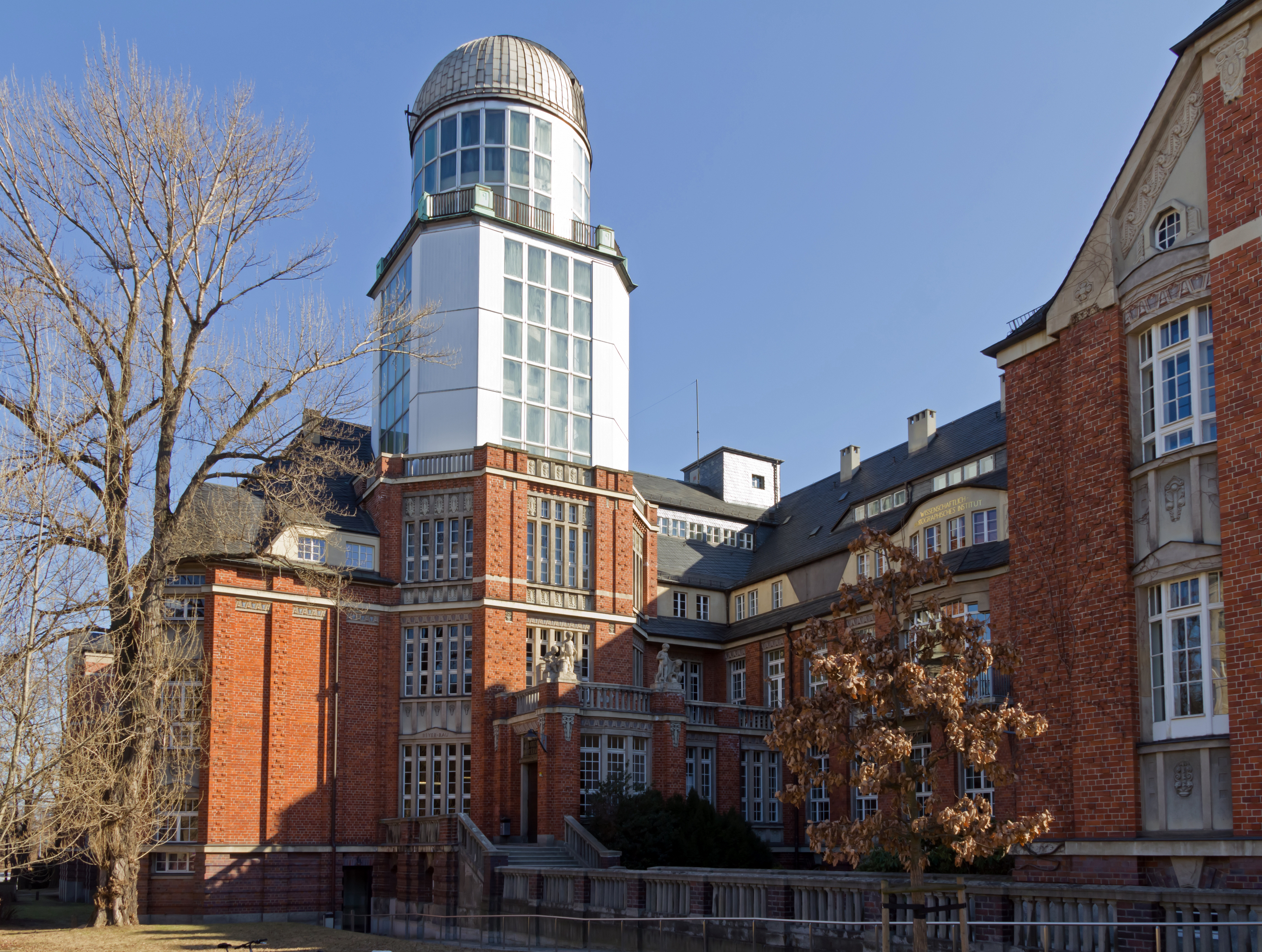 The Beyer-Bau building of the university TU Dresden in Dresden, Germany. View from north-west (George-Bähr-Straße).